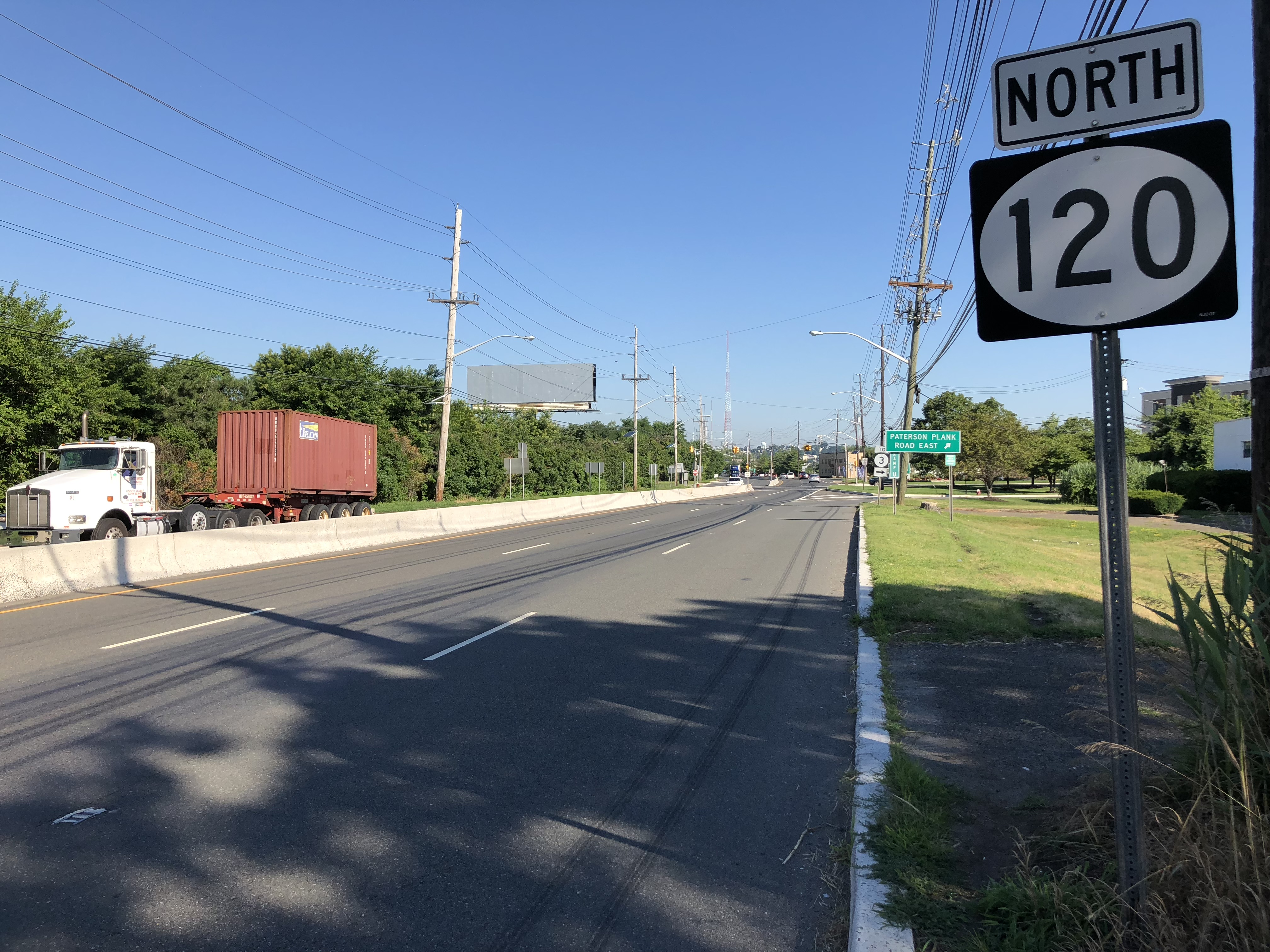 View north along New Jersey State Route 120 (Paterson Plank Road) just north of Bergen County Route 503 (Washington Avenue) on the border of East Rutherford and Carlstadt in Bergen County, New Jersey